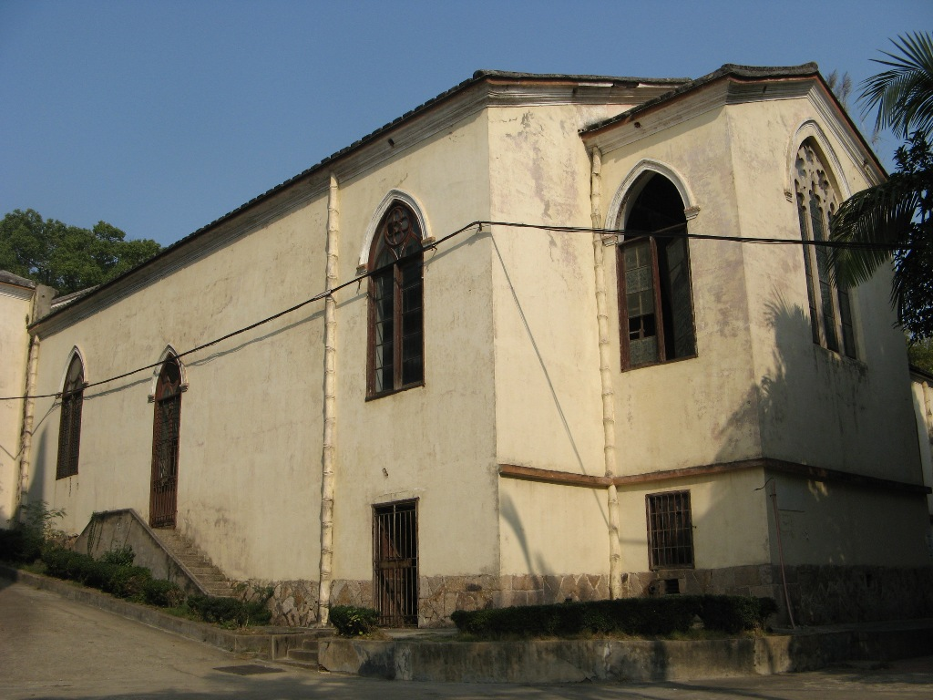 Do-seuk Girls' School, Foochow